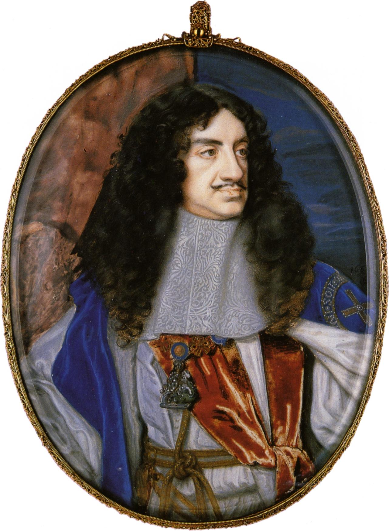 Portrait of Charles II (1630-1685) in royal robes.